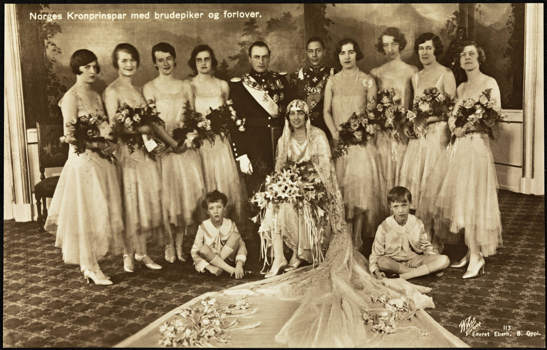 Tittel / Title: Norges Kronprinspar med brudepiker og forlover Motiv / Motif: Postkort. Dato / Date: 27. februar 1929 Fotograf / Photographer: Anders Beer Wilse (1865-1949) Utgiver / Publisher: B. Oppi Sted / Place: Oslo, Det kongelige slott Eier / Owner Institution: Nasjonalbiblioteket / National Library of Norway Lenke / Link: Bildesignatur / Image Number: blds_04730